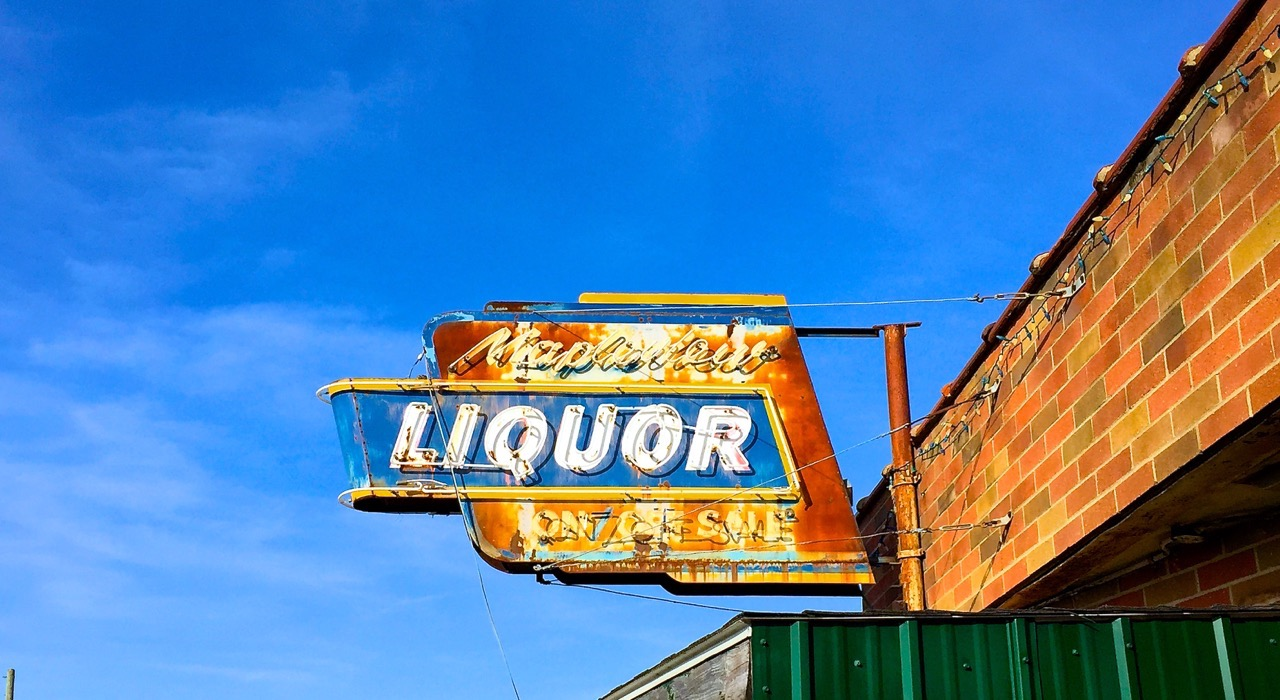 The Mapleview Lounge, known locally as "The Rock," is a popular gathering spot in the small town of Mapleview.